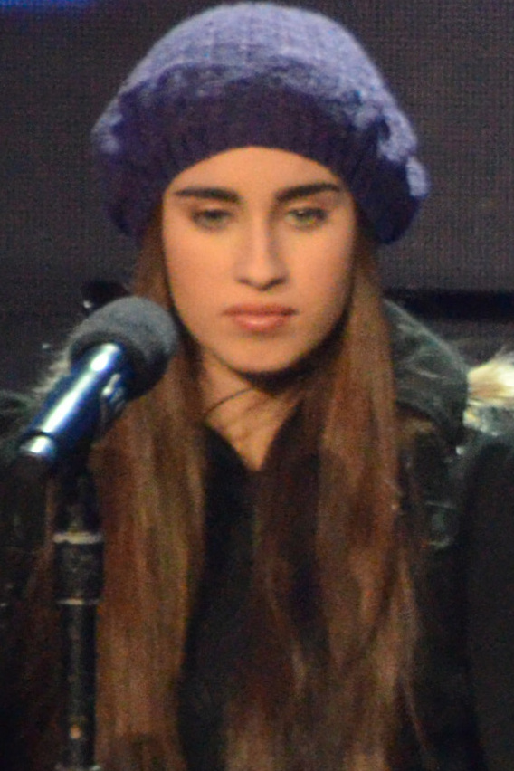 Lauren Jauregui, Simon Cowell, Carly Rose Sonenclar, Britney Spears, and Tate Stevens promoting The X Factor USA in 2012